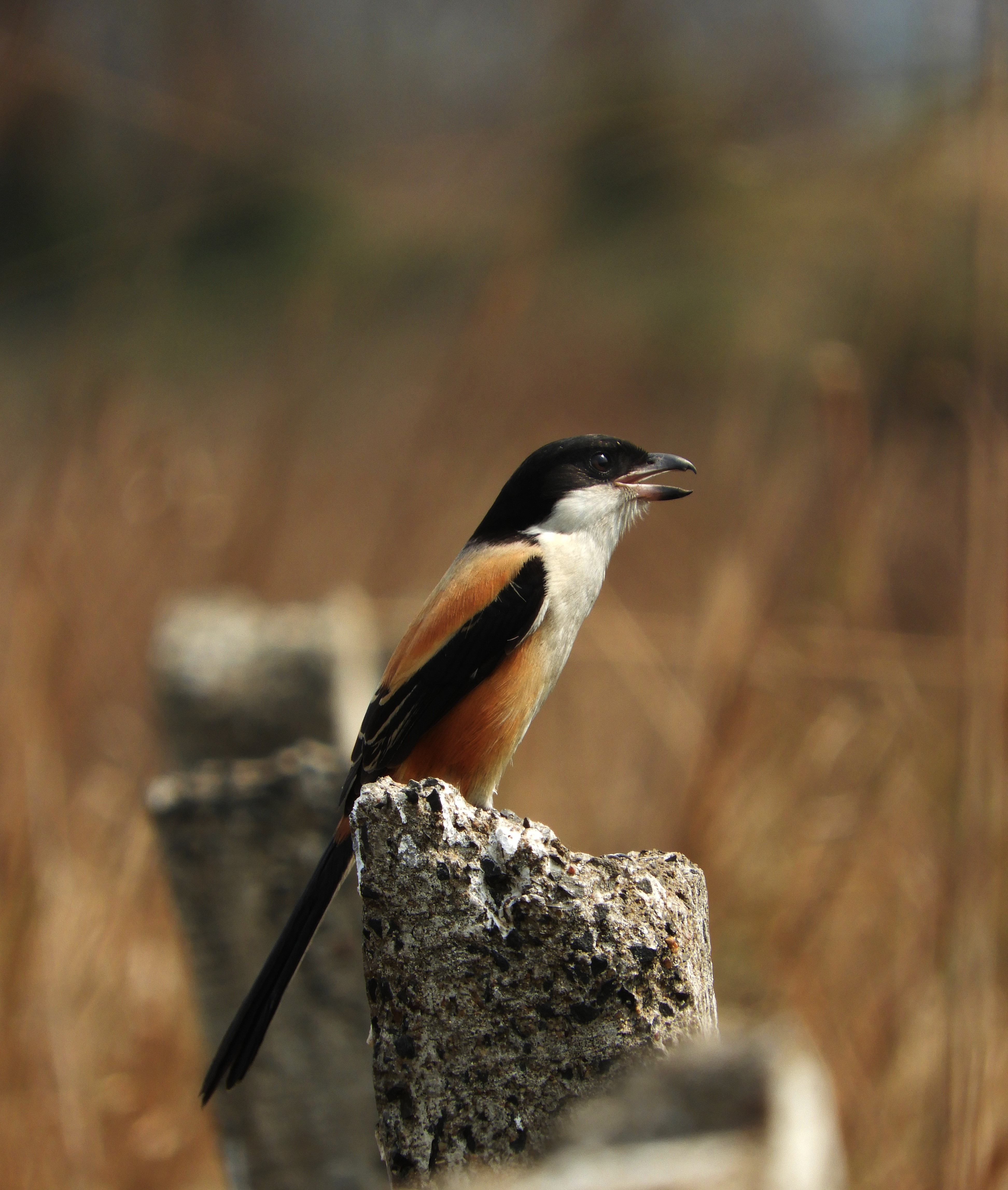 Long Tailed Shrike at Basipota